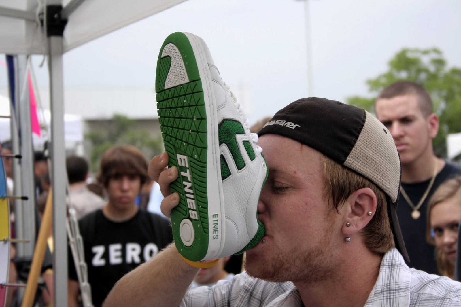 Another guy drinking Rockstar out of a shoe